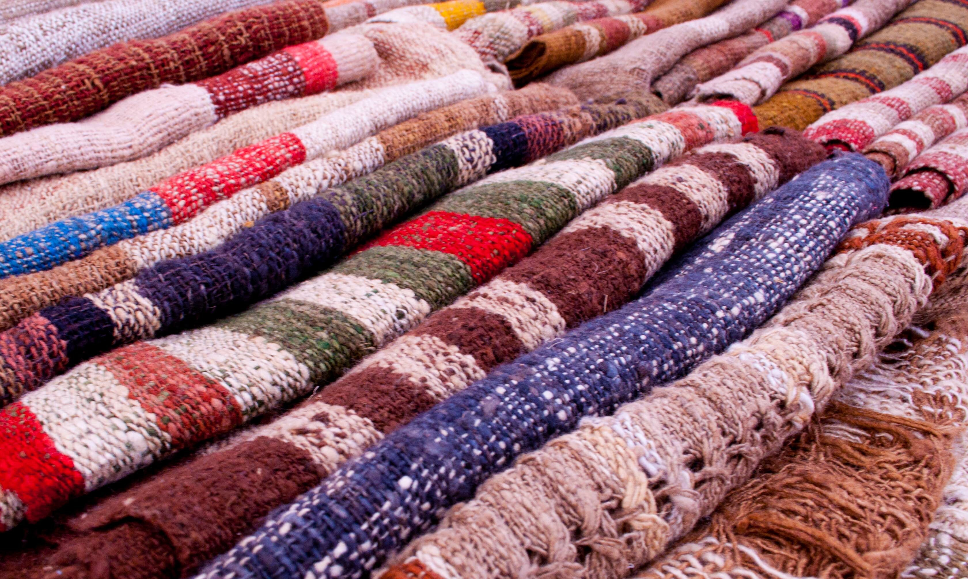 Raw silk lamba (shawl), the iconic traditional article of clothing in Madagascar